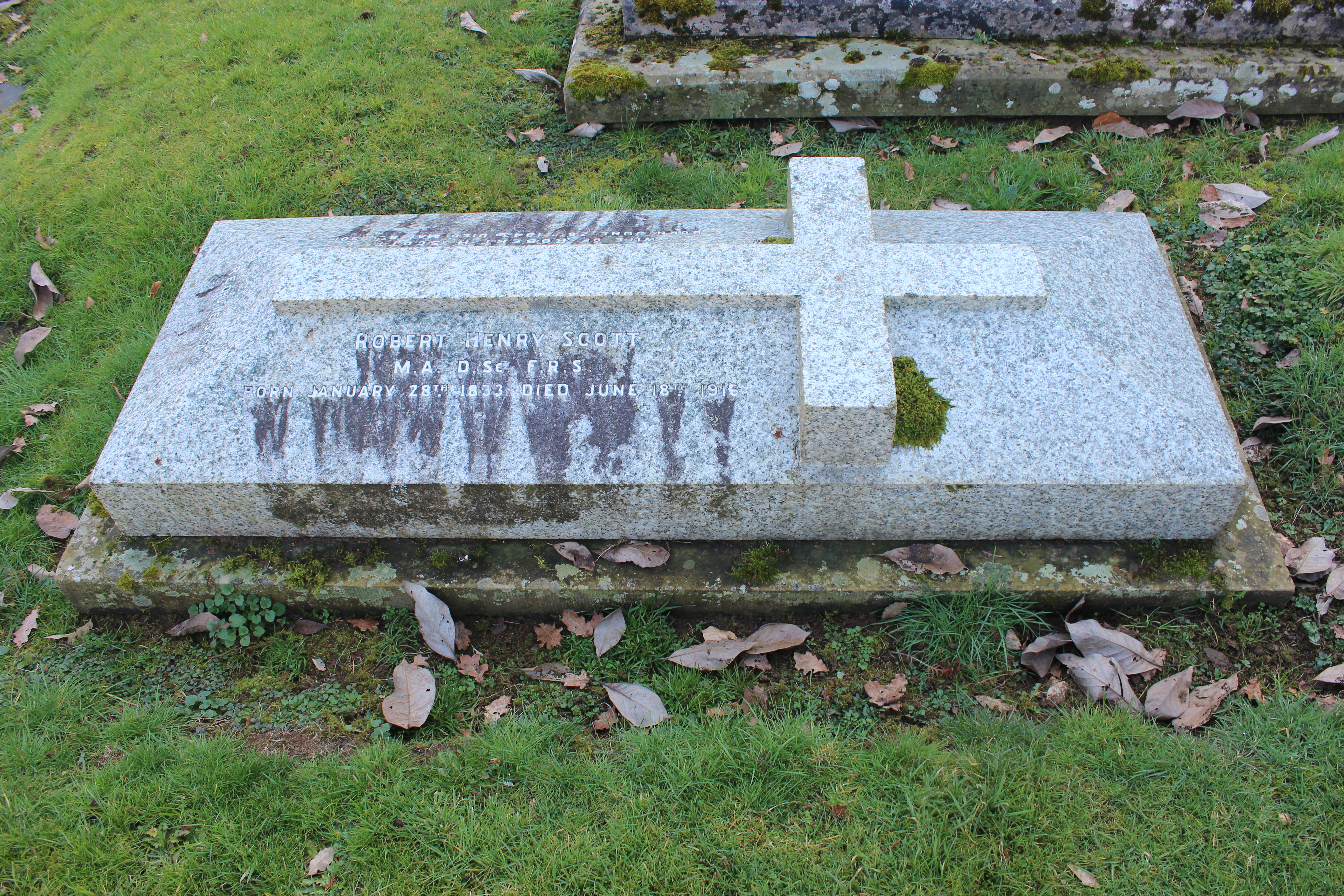 Grave of Robert Henry Scott